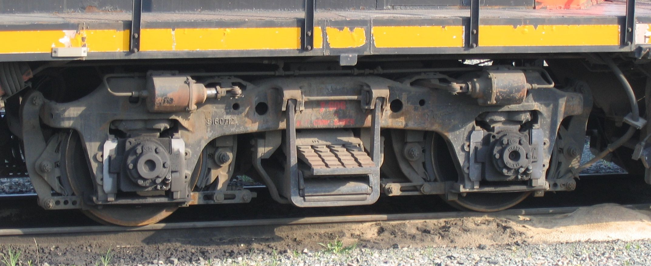 Photo by user Meggar